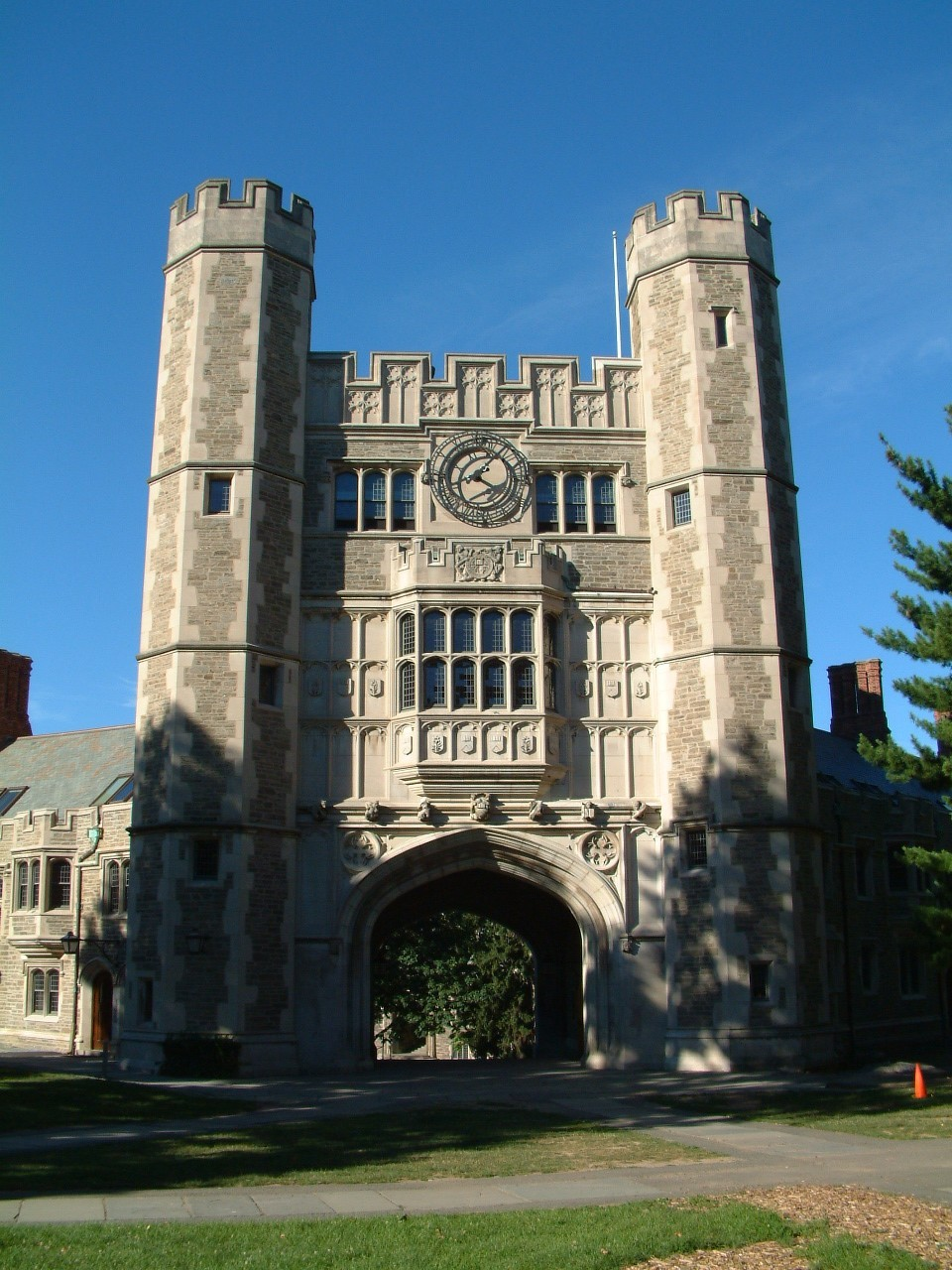 Blair Arch at Princeton University